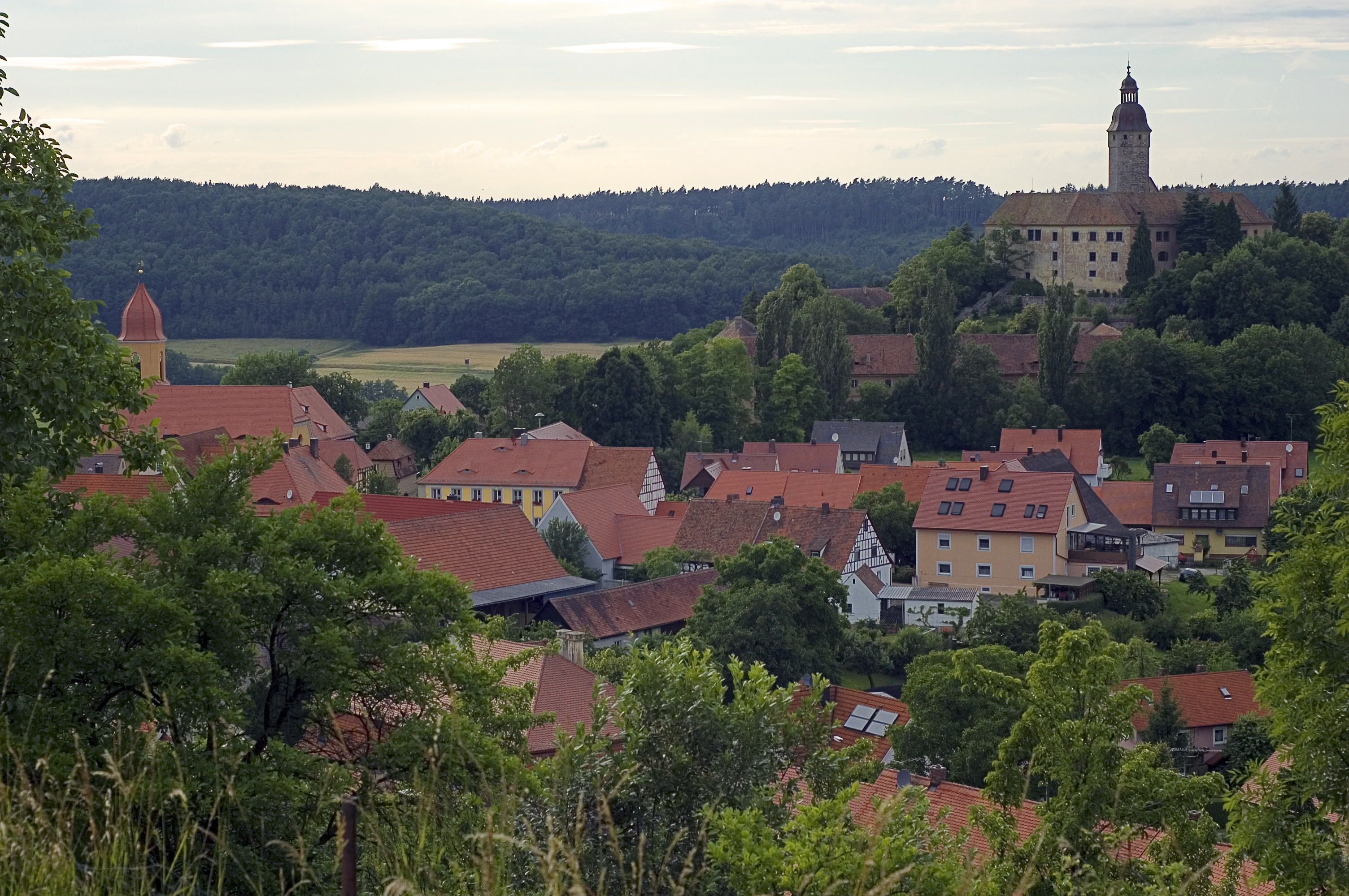 Virnsberg and Virnsberg castle, Flachslanden, Germany Camera: Nikon D50 Lens: AF-S DX Zoom-Nikkor 18-55 mm 1:3,5-5,6G ED